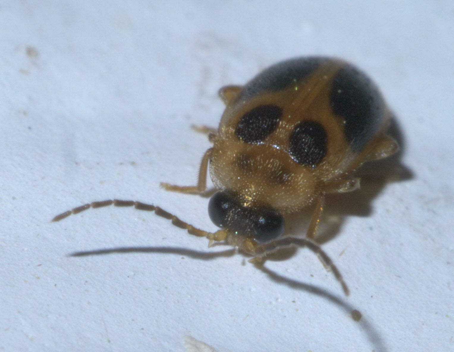 Sacodes pulchella, Family: Marsh Beetles, ID Confidence: 88